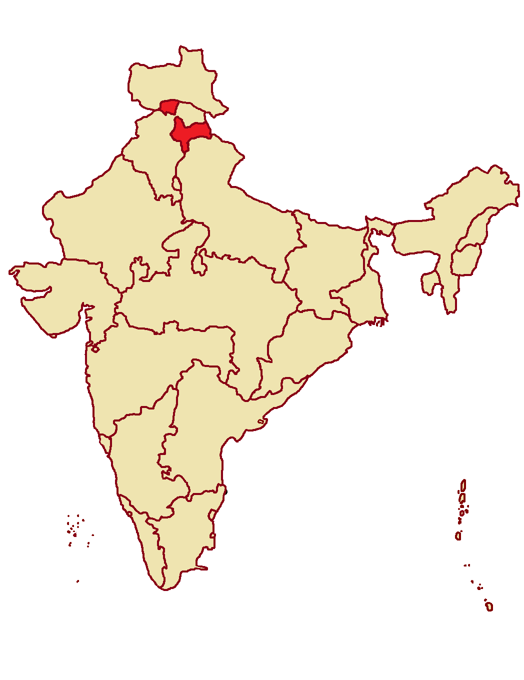 States and Union Territories of India, as of 1964-1965, i.e. between the creation of the state of Nagaland in 1963 and the Punjab Reorganization Act, 1966. Map does not include territories claimed by India but controlled by other countries. Borders not necessarily to scale. Based on File:States_of_India_(1964).png